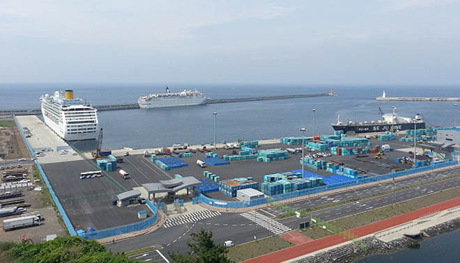 Jeju Outer Port_View1